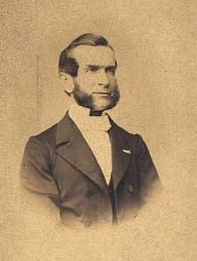 Andreas Frederik Høst (1811-1897), Danish bookseller and publisher